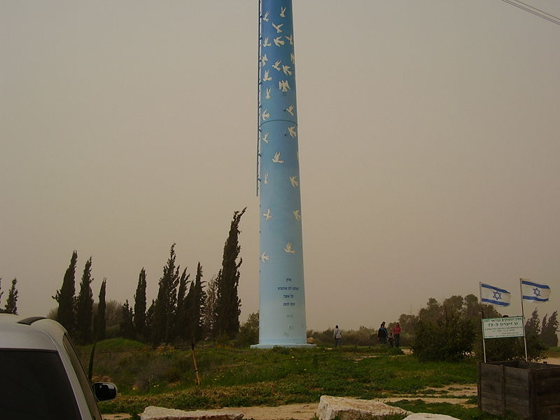 The Tom and Tomer'Hill Tower